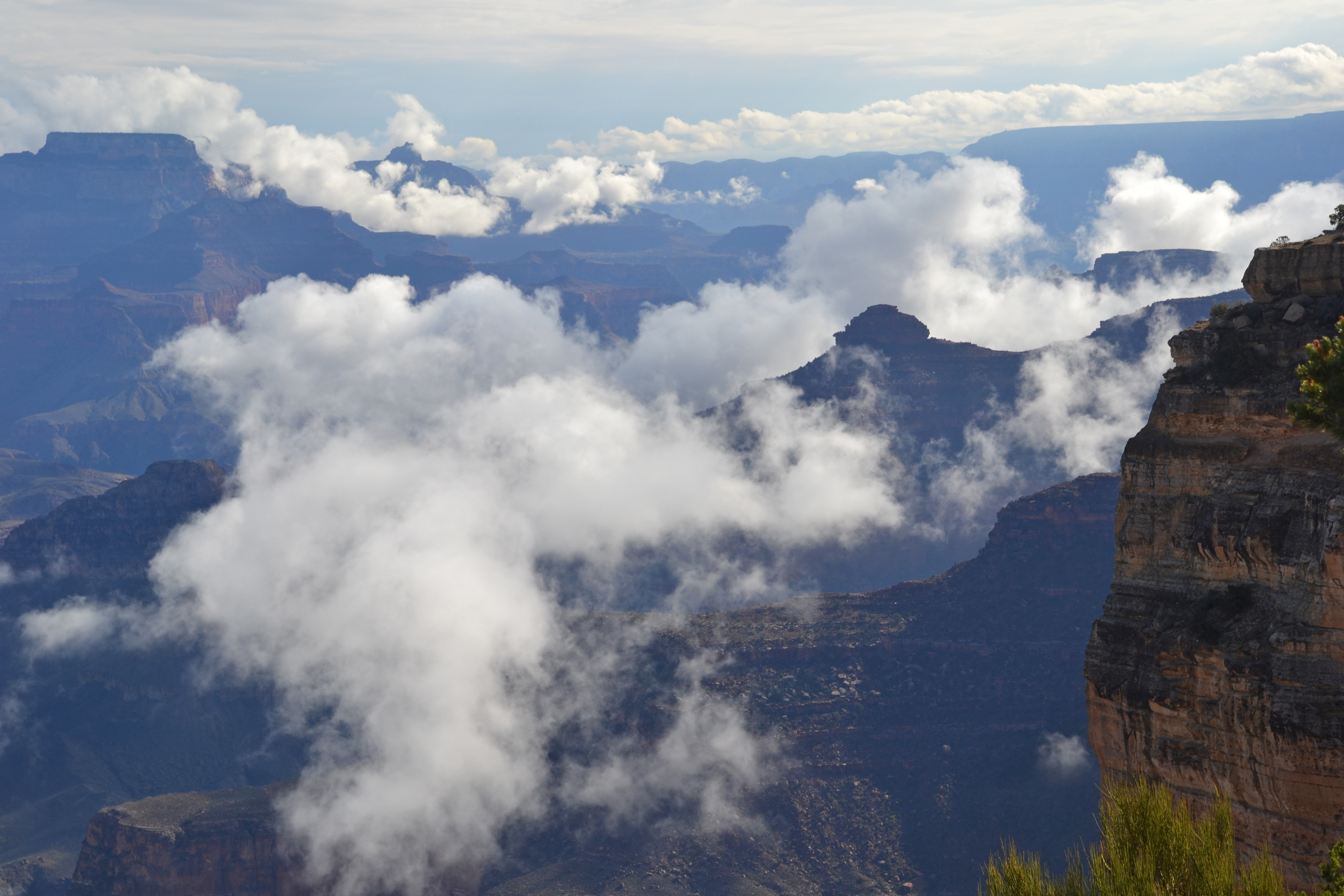 Inversion in the Canyon as seen from Hopi Point, NPS Photo by Michael Quinn